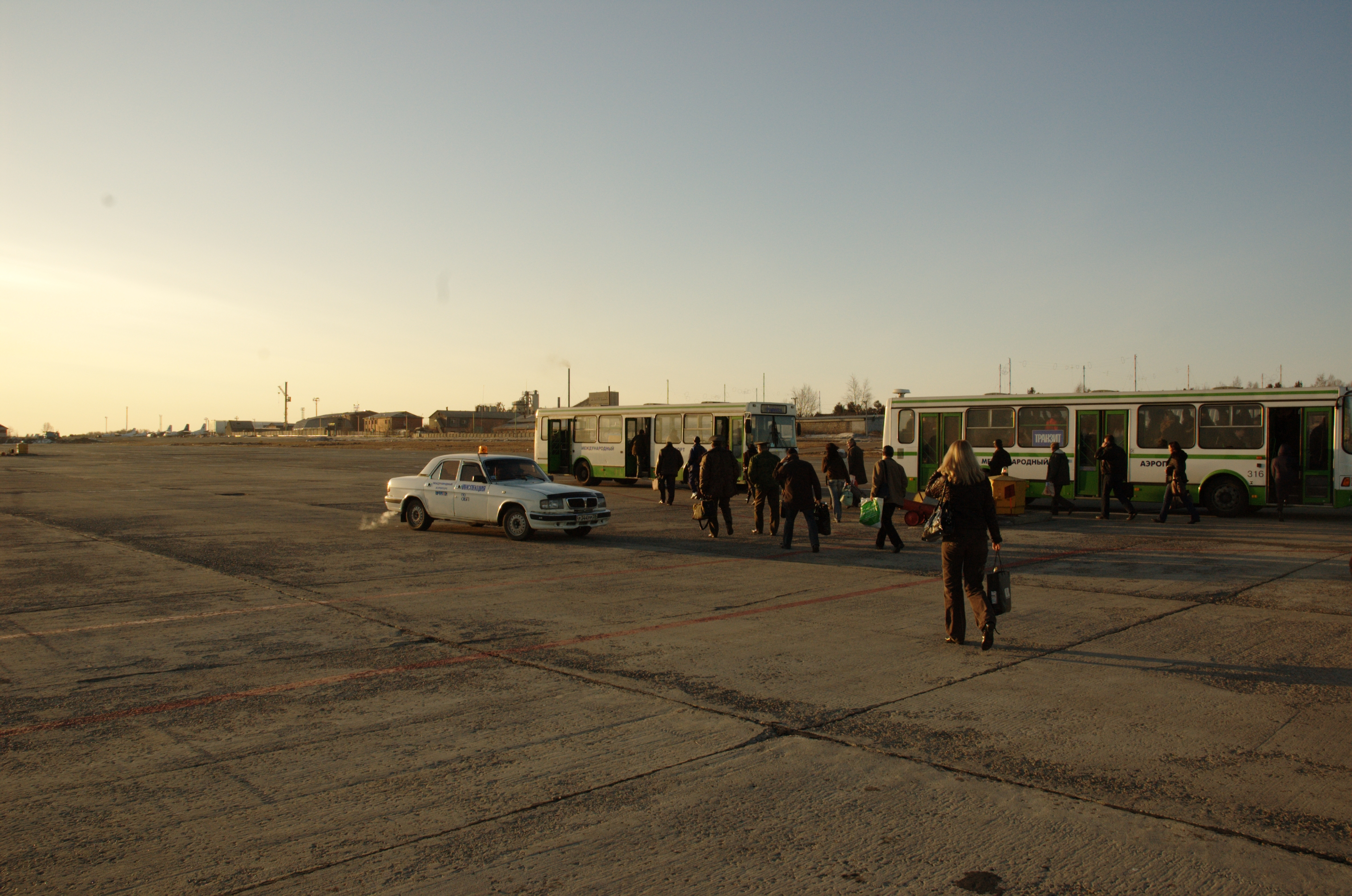 Vehicles at Irkutsk Airport.